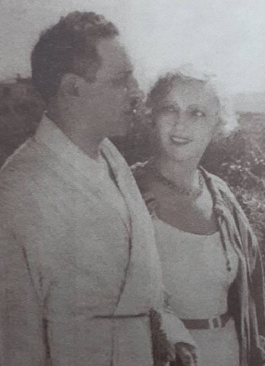 Naguib el-Rihani and Amy Brevannes in a film entitled "Yacout", shot in paris in 1934.